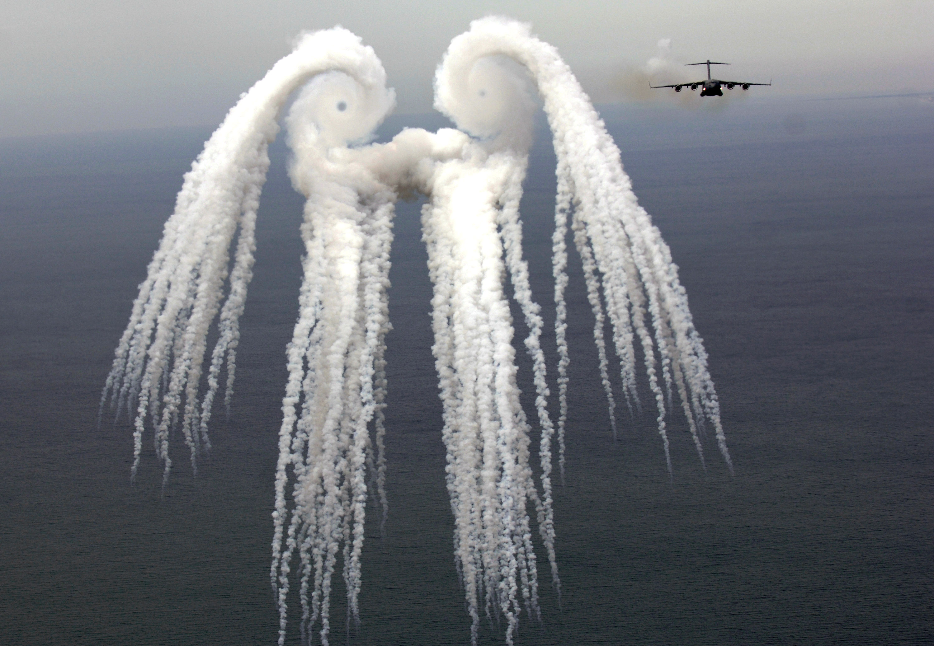 A C-17 Globemaster III from the 14th Airlift Squadron, Charleston Air Force Base, South Carolina. flies off after releasing flares over the Atlantic Ocean near Charleston, South Carolina, during a training mission on Tuesday, May 16, 2006. The "smoke angel" is caused by wing vortices at the plane's wingtips. [1]